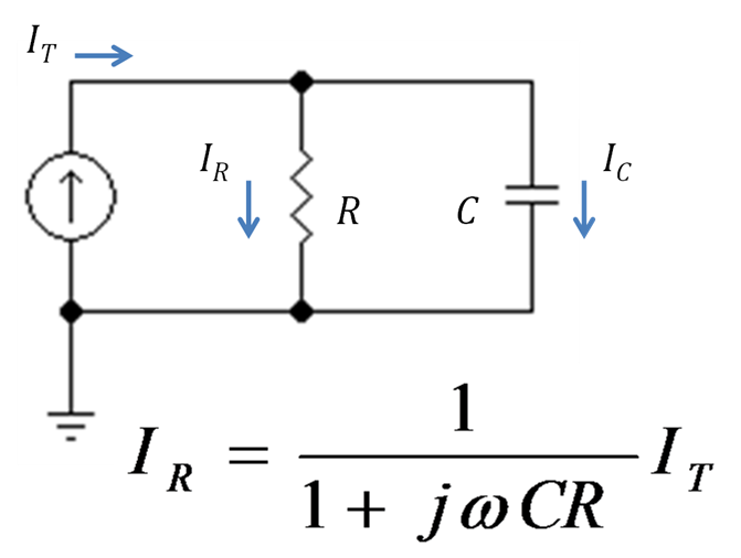 Lowpass RC filter